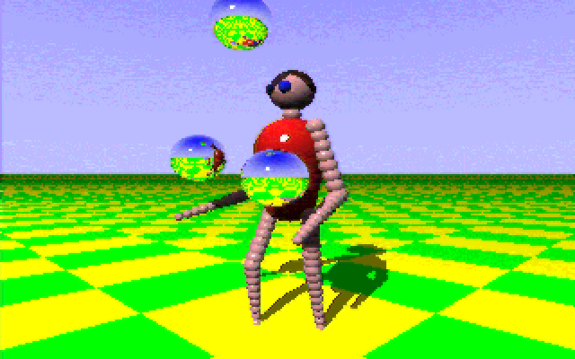 Screenshot of Juggler. Early 3D demo created and played on an Amiga 1987. Published on Fred Fish's Amiga Freely Redistributable Software Library disk 47.